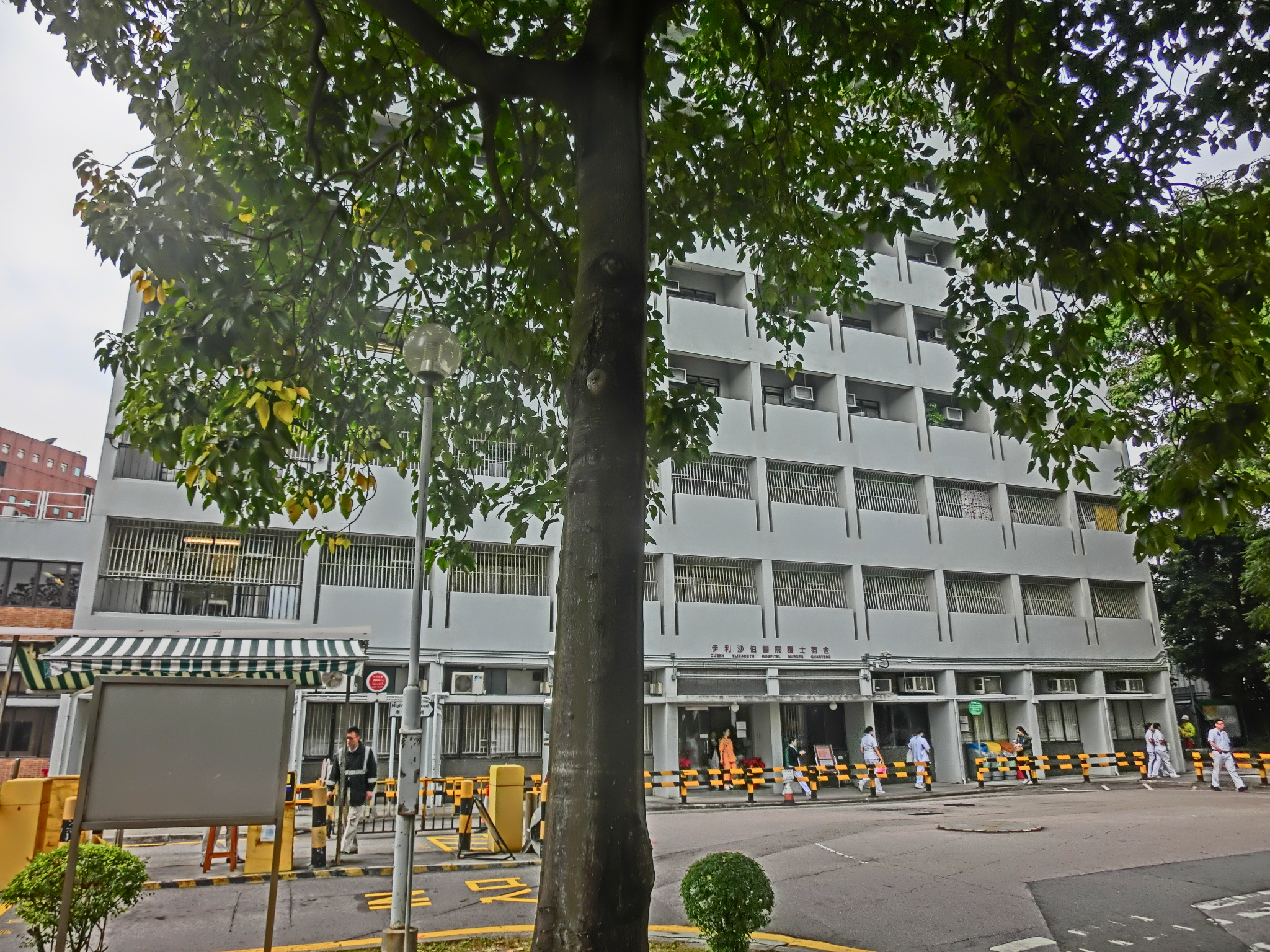 伊利沙伯醫院, Queen Elizabeth Hospital Road, King's Park, Yau Ma Tei, Hong Kong